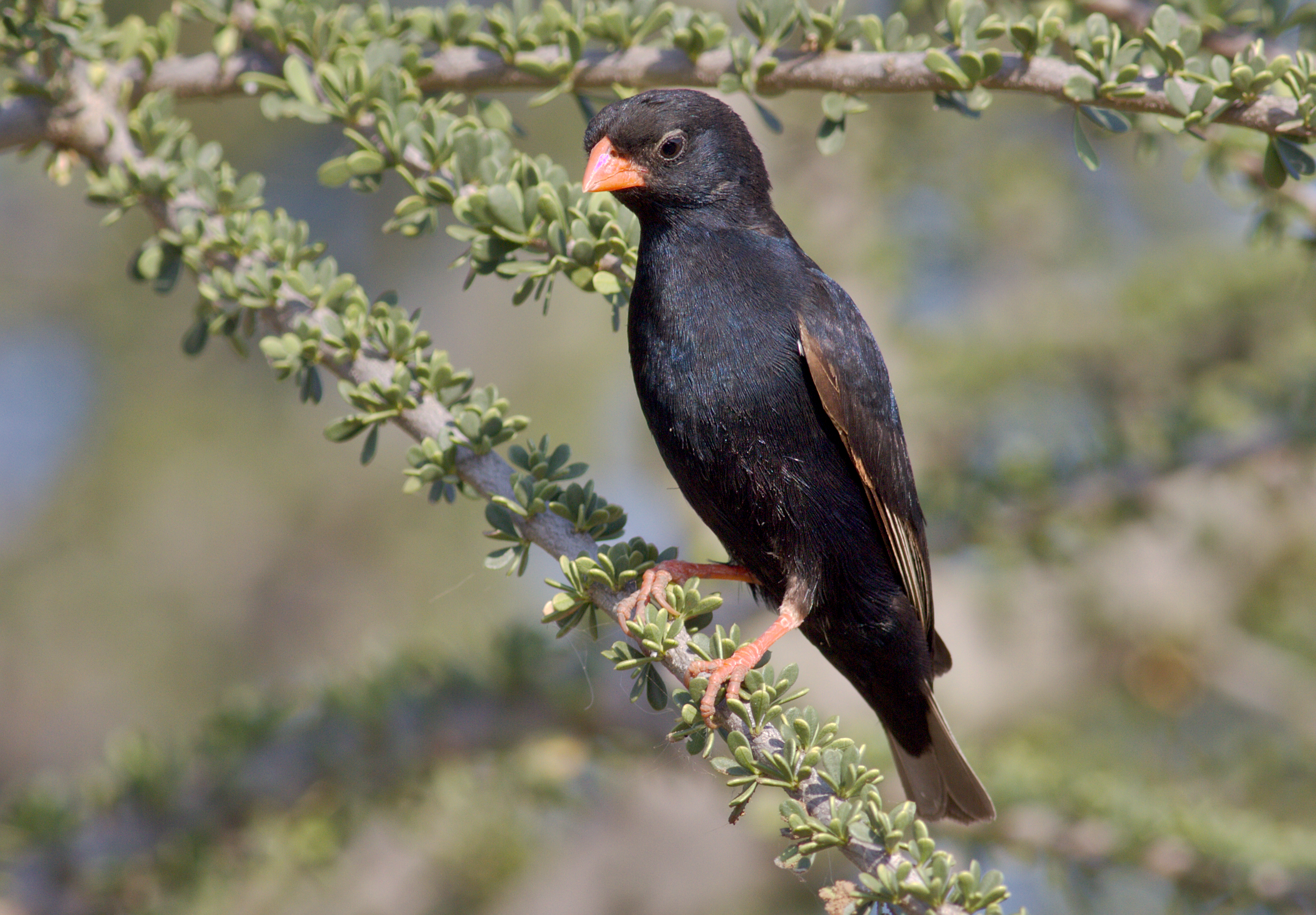 A male Village indigobird of the red-billed race V. c. subsp. amauropteryx, perched in a Stink shepherd's tree at Mapungubwe National Park, Limpopo, South Africa